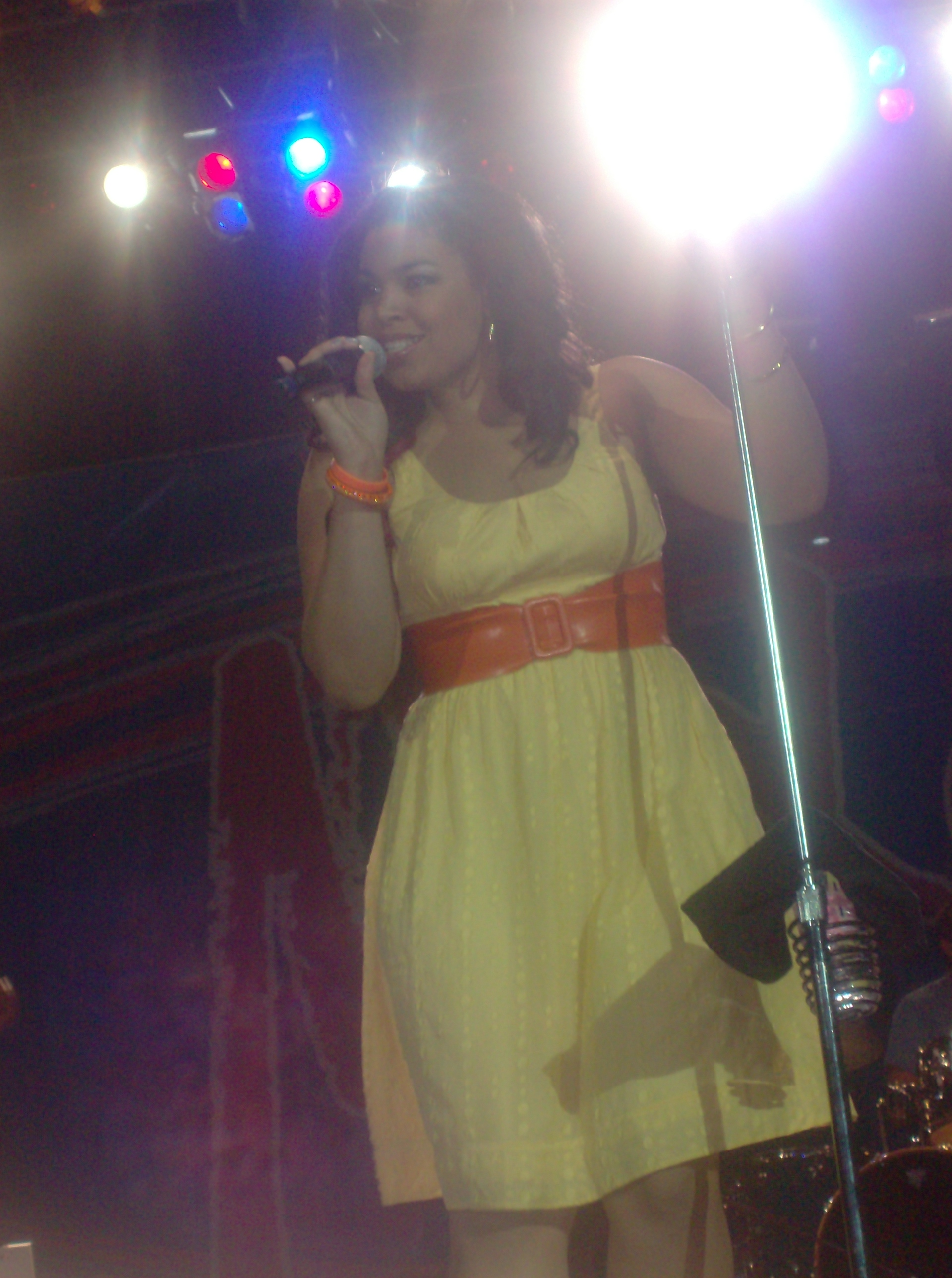 Jordin Sparks live in Kansas City